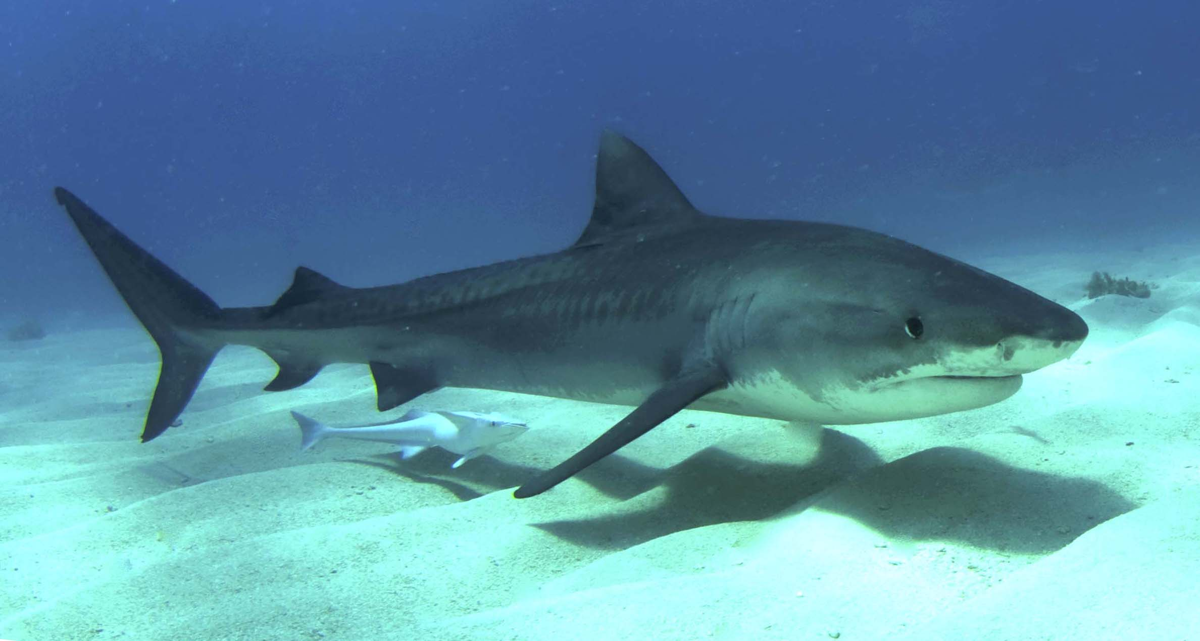 Juvenile tiger shark Bahama's